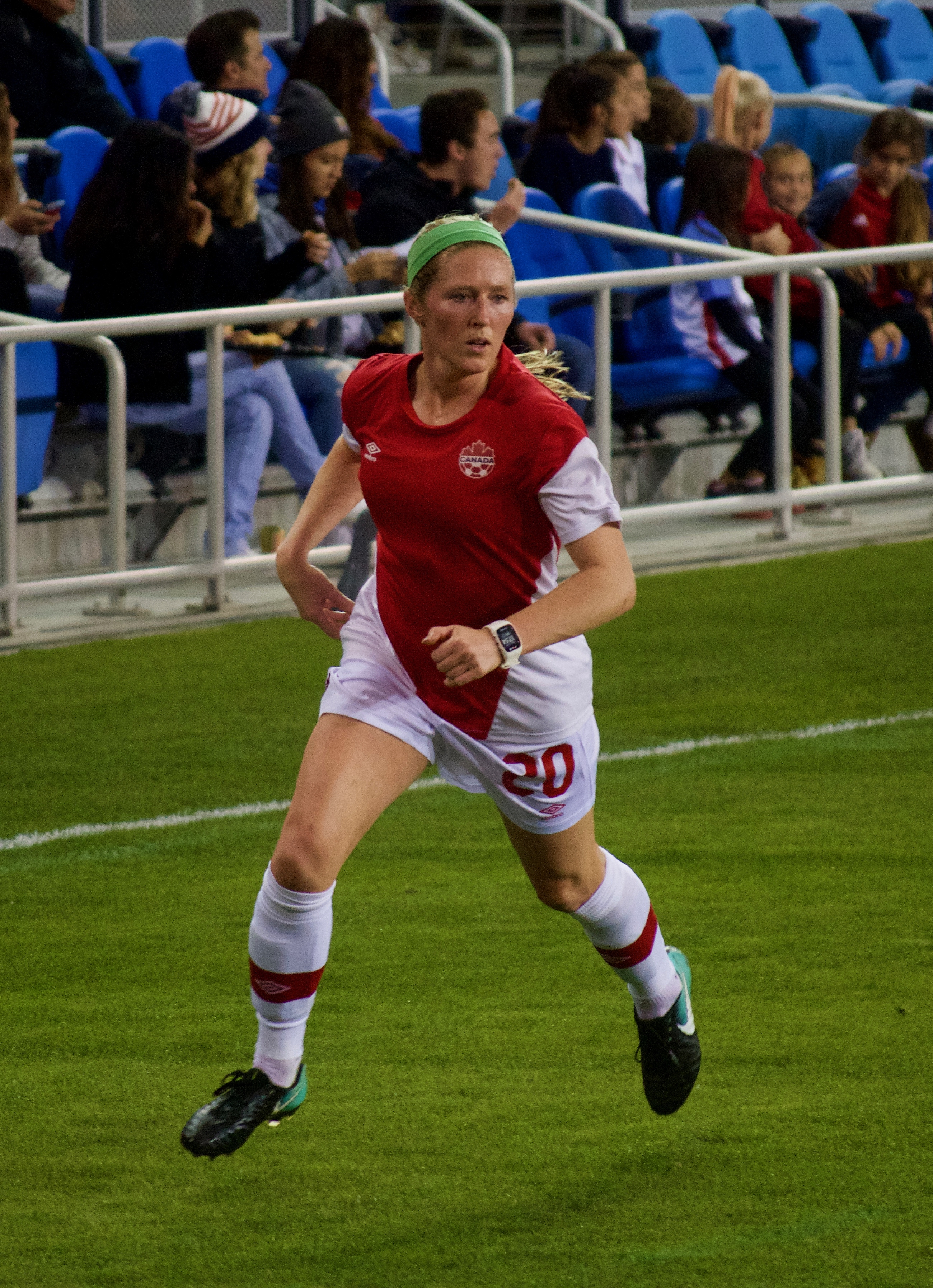 Maegan Kelly warming up for the Canada women's national team at Avaya Stadium, San Jose, California, on 12 Nov 2017.